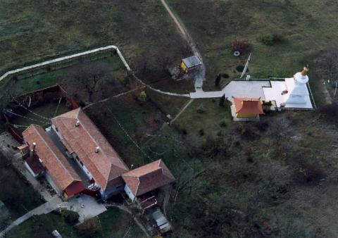 Sámsonháza, Hungary, aerialphotography